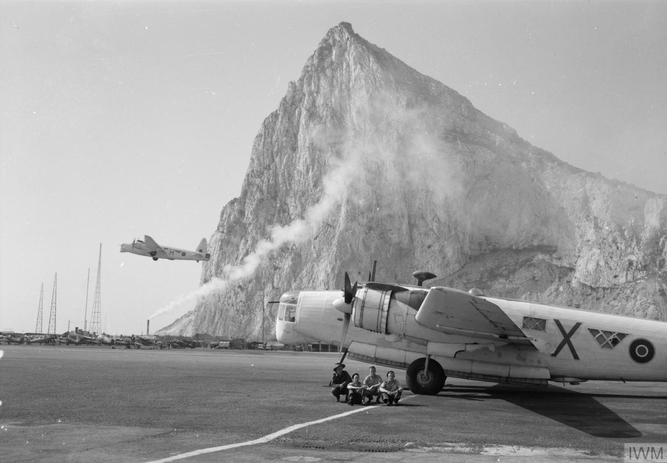 Royal Air Force Coastal Command, 1939-1945. Groundcrew of No. 458 Squadron RAAF sit underneath one of the Squadron's Vickers Wellington Mark XIVs at Gibraltar, while another aircraft takes off past the Rock.